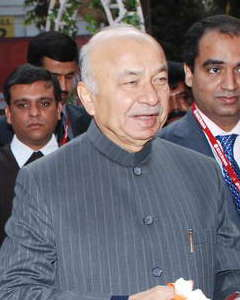 Elecrama 2010 - Inaguration by Mr. Sushil Kumar Shinde, Honorable Union Minister for Power, Government of India (Jan 2010)